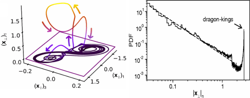 Attractor and probability density function of trajectory distances in a chaotic dynamical system with a riddled basin as discussed in Cavalcante, Hugo LD de S., et al. "Predictability and suppression of extreme events in a chaotic system." Physical review letters 111.19 (2013): 198701.